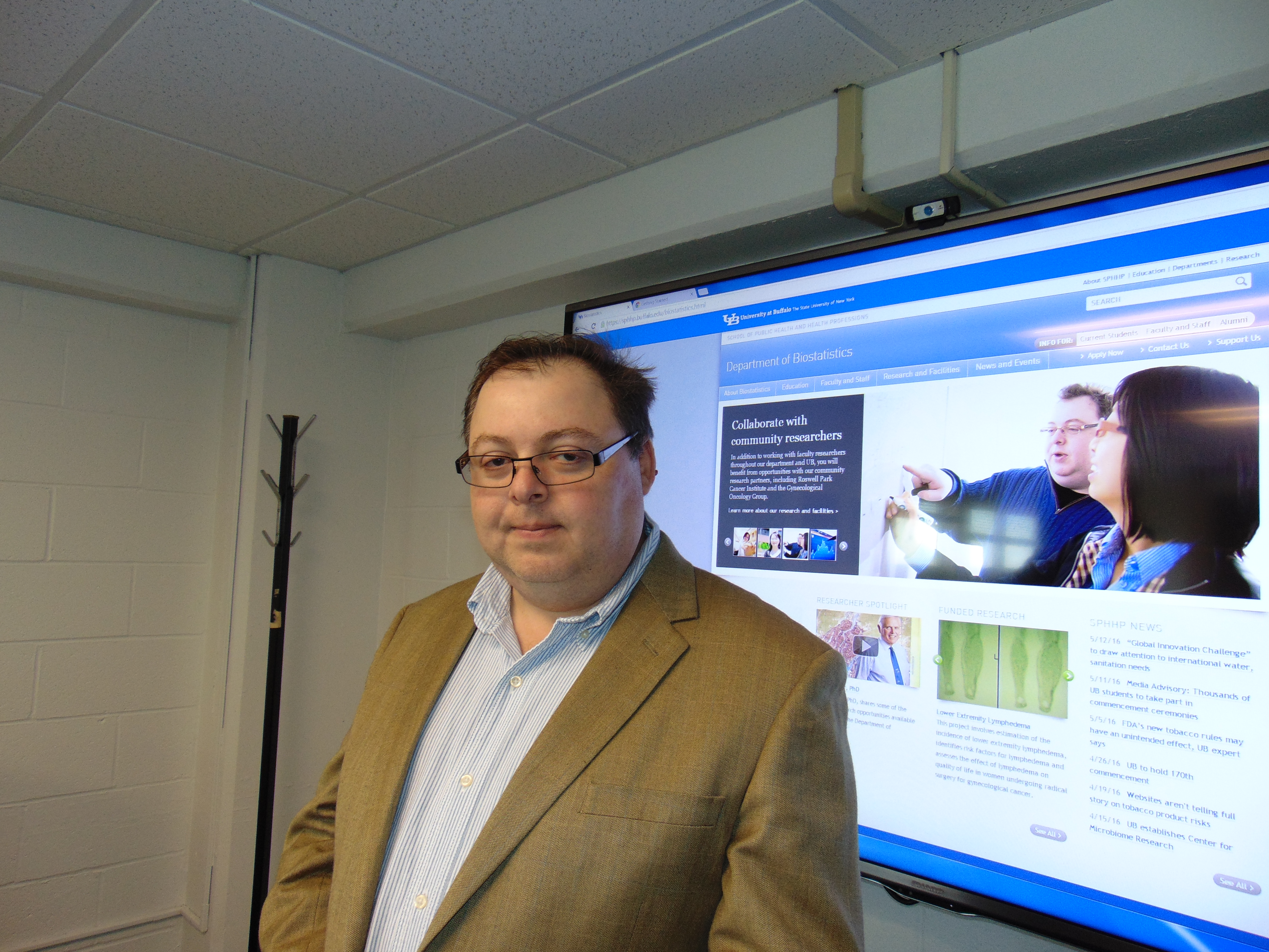 Albert Vexler